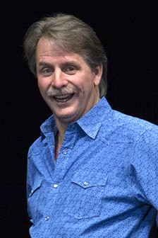 Comedian Jeff Foxworthy performing at the Resch Center in Green Bay